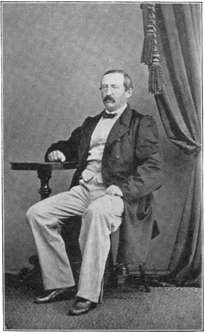 Carl Magnus Appelberg (1826-96), Swedish physician and co-founder of the academic fraternity "SHT".